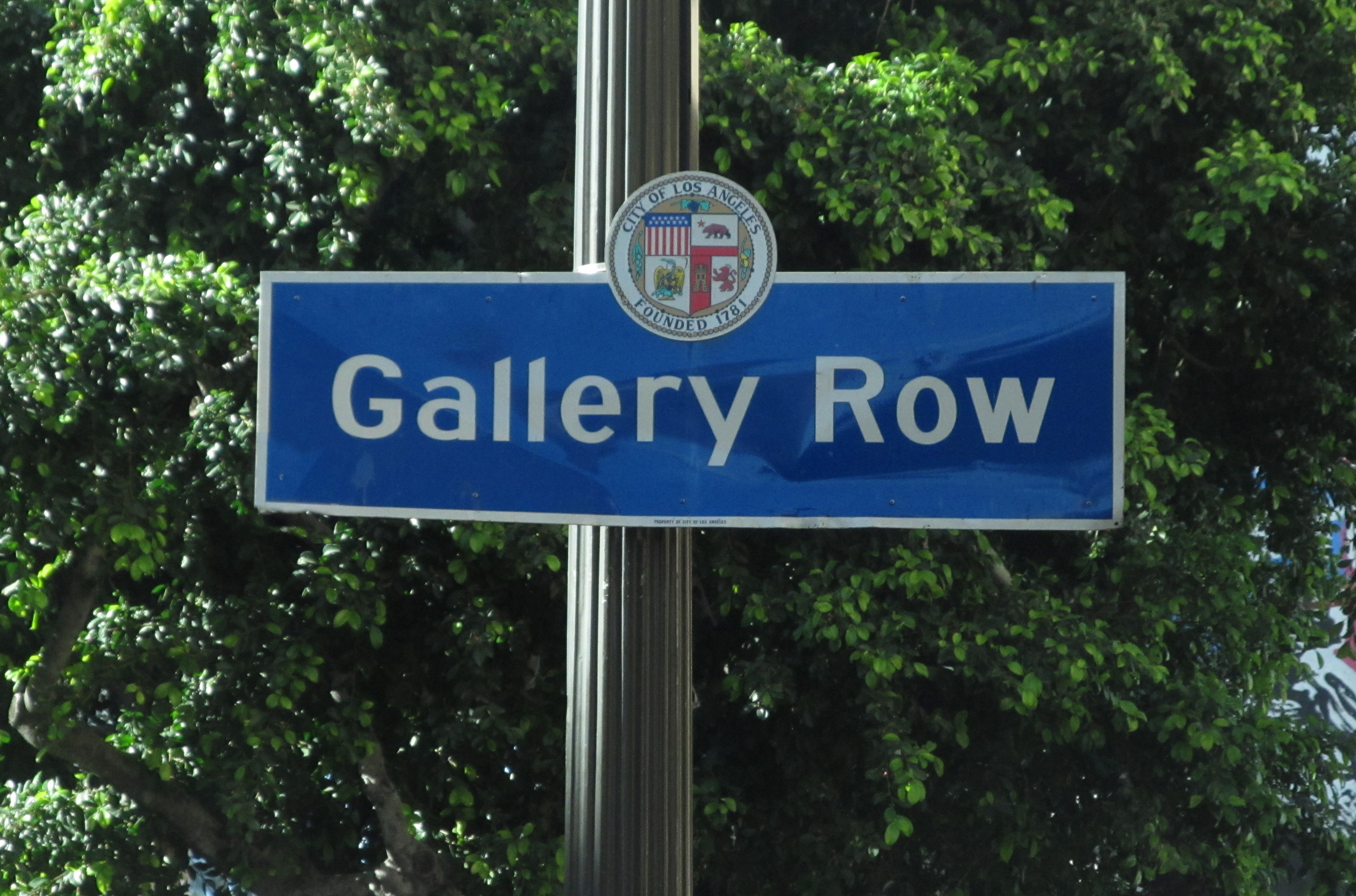 Gallery Row Signage